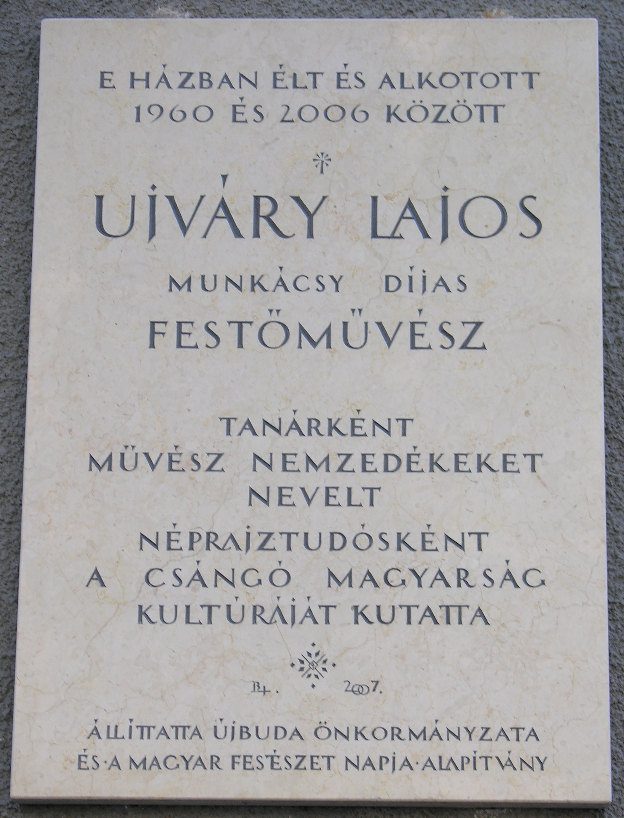 Commemorative plaque of Lajos Ujváry in Budapest District XI, Bartók Béla Street No 52